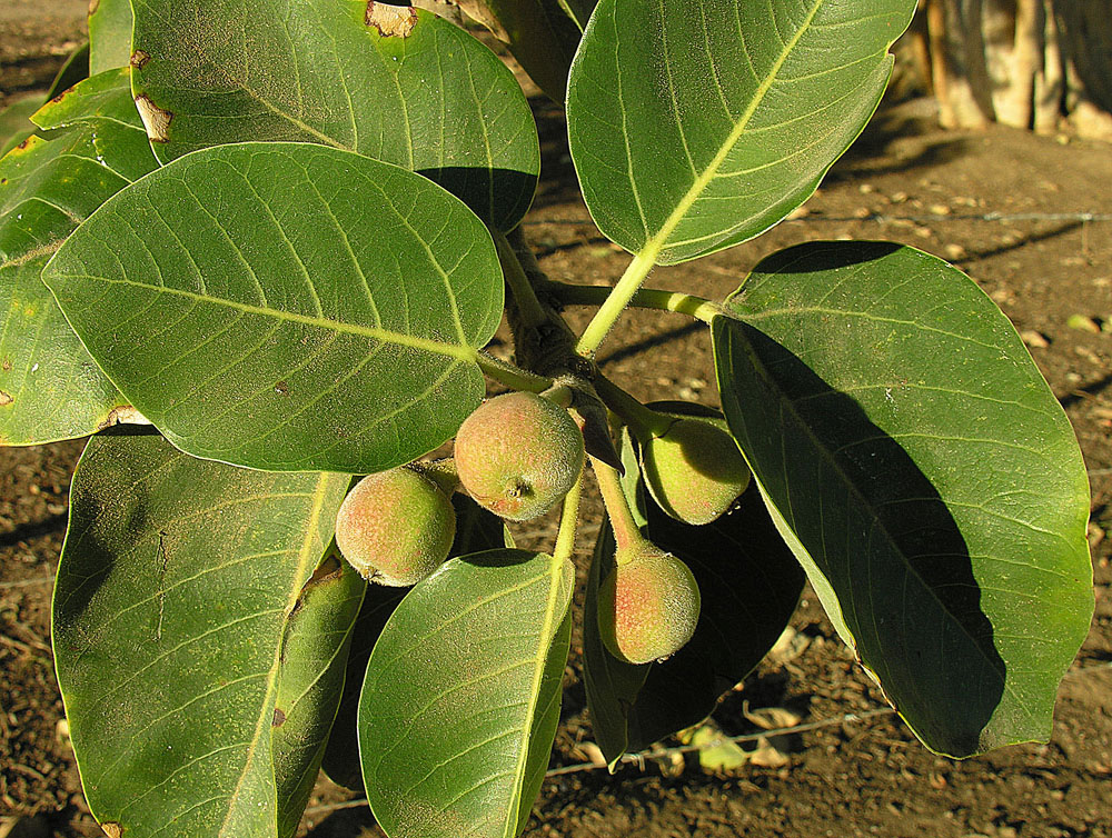 Fruit of the Rock Fig, better known in its native Baja California as Zalate. Photo from near the town of Todos Santos.